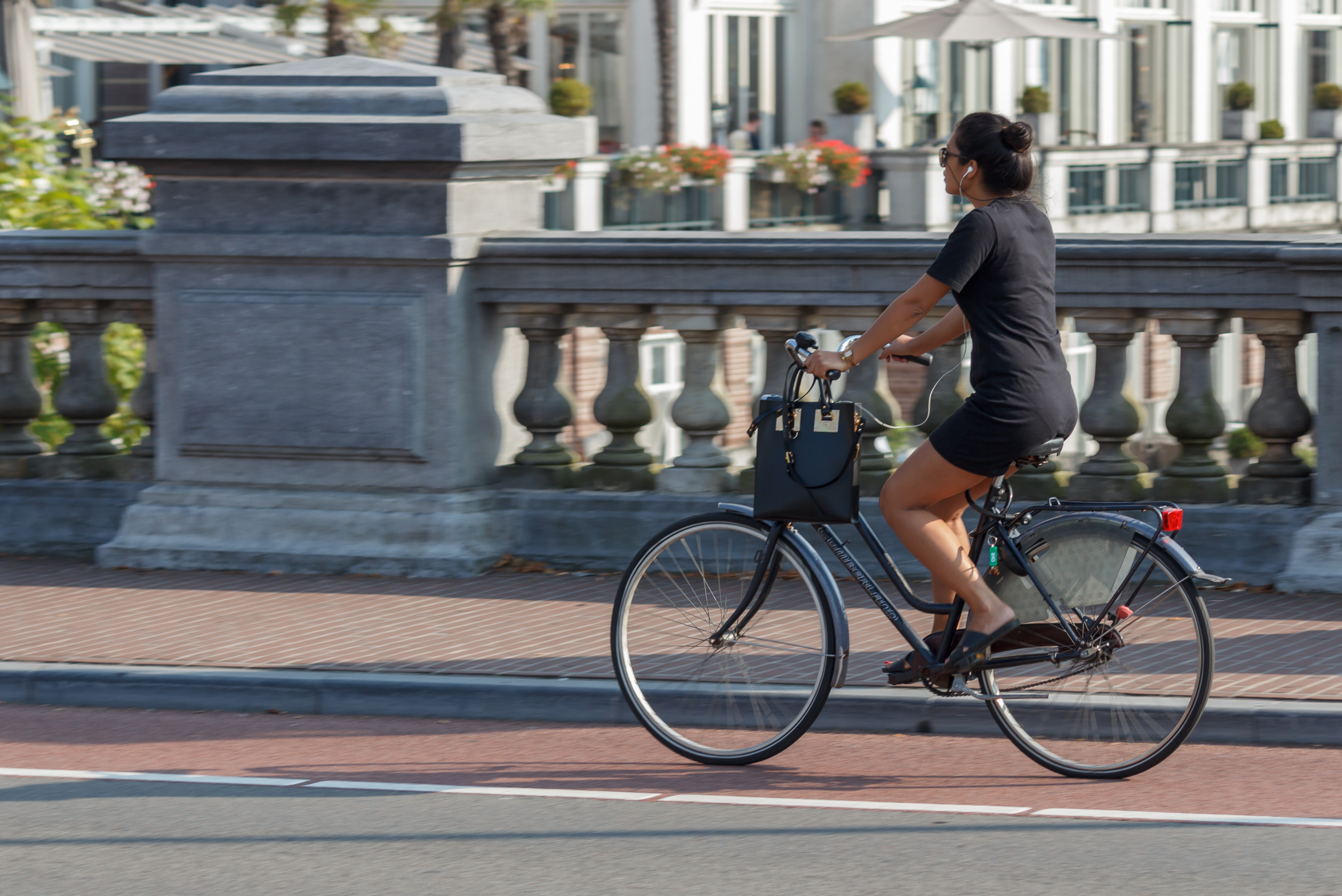 Female bicyclist crossing De Hogesluis over the River Amstel in Amsterdam.